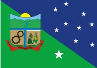 Flag of city of Travesseiro, Rio Grande do Sul, Brazil